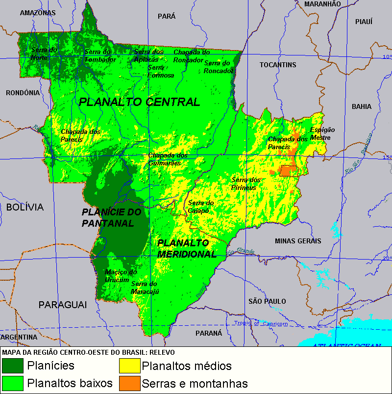 Center-West of Brazil physical map.